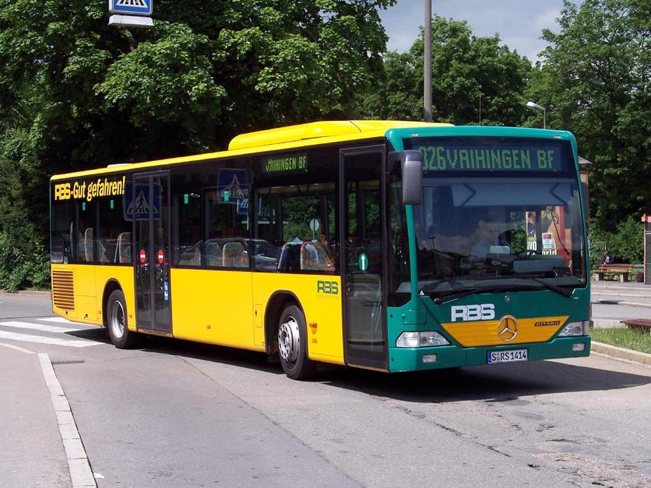 An interurban model Mercedes-Benz Citaro Ü of Regional Bus Stuttgart, Stuttgart, Germany arrives at Tübingen bus station to take up a route 826 service.